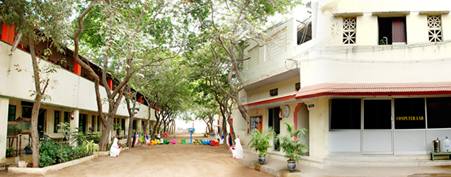 The main front view of the school that one could see just after entering